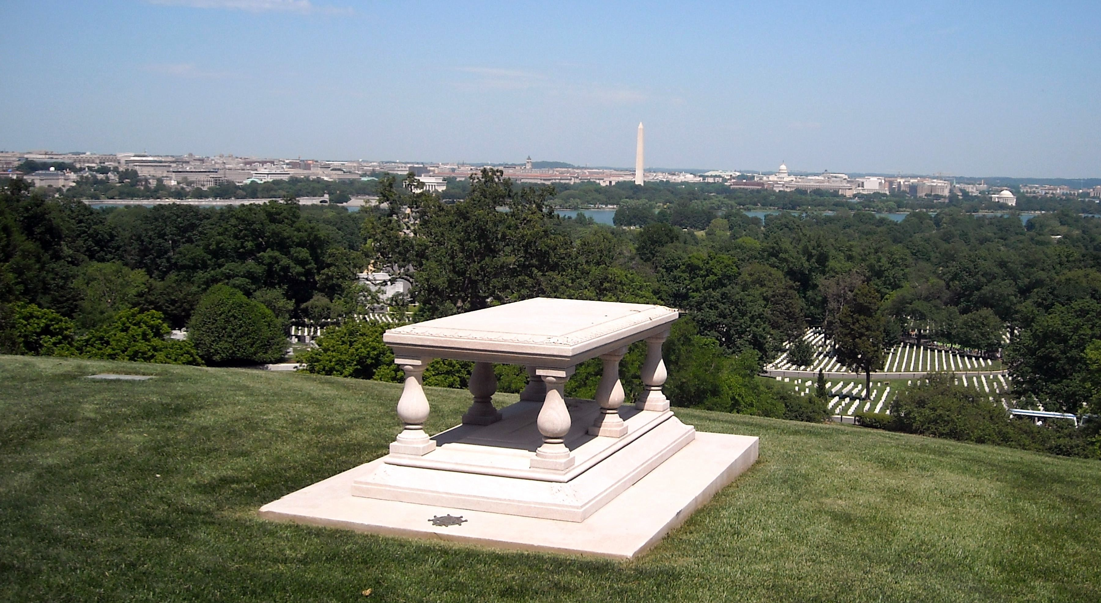 Tomb of Pierre Charles L'Enfant, designer of Washington, D.C.'s original city plan, on the grounds of Arlington House (the Robert E. Lee Memorial) at Arlington National Cemetery in Arlington, Virginia, in the United States.